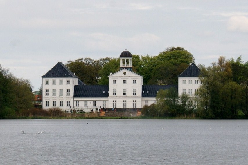 Grasten Palace